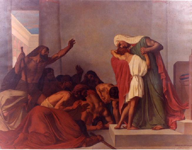 Joseph recognized by his brothers, by Léon Pierre Urbain Bourgeois, 1863 oil on canvas, at the Musée Municipal Frédéric Blandin, Nevers